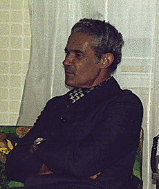 Prime Minister of Jamaica Michael Manley, 05/31/1977. Converted from GIF to PNG, cropped.